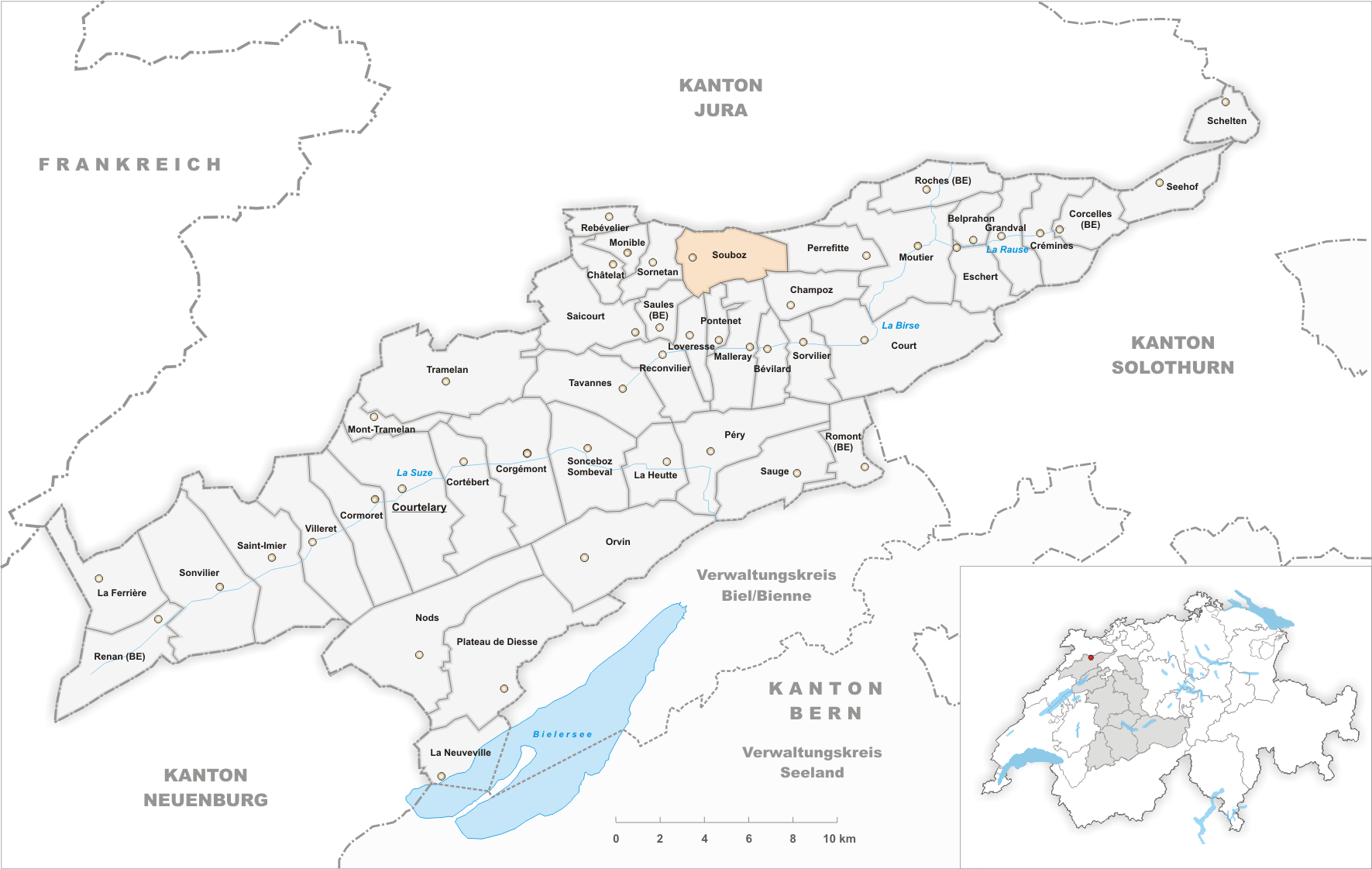 Municipality Souboz